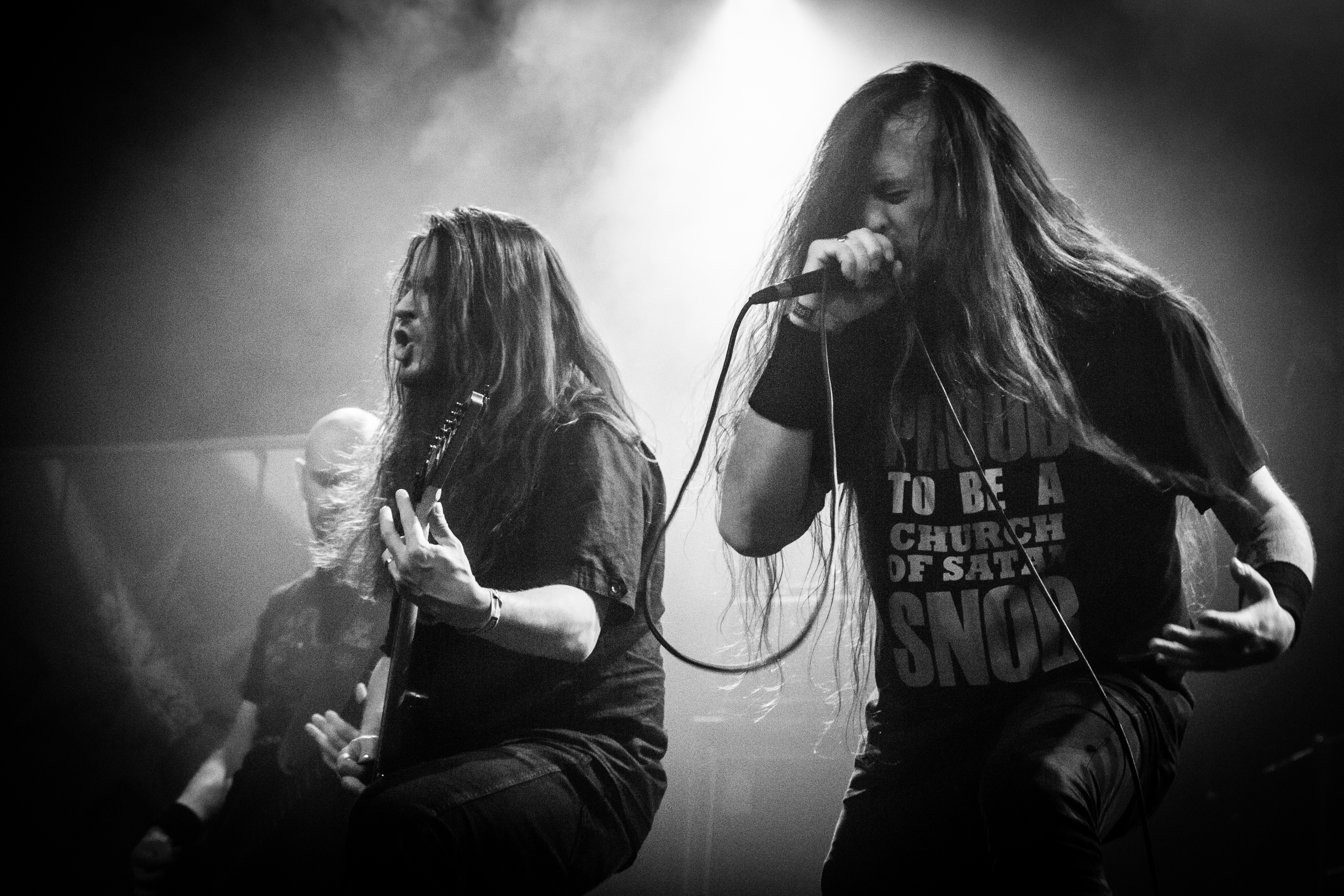 Hail of Bullets performing live at Eindhoven Metal Meeting, 2016